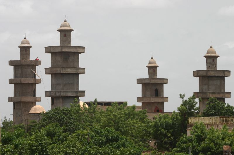 As seen from the roof of Geekcorps' office. The man in the red shirt is pulling something up on a rope, a ladder I think.